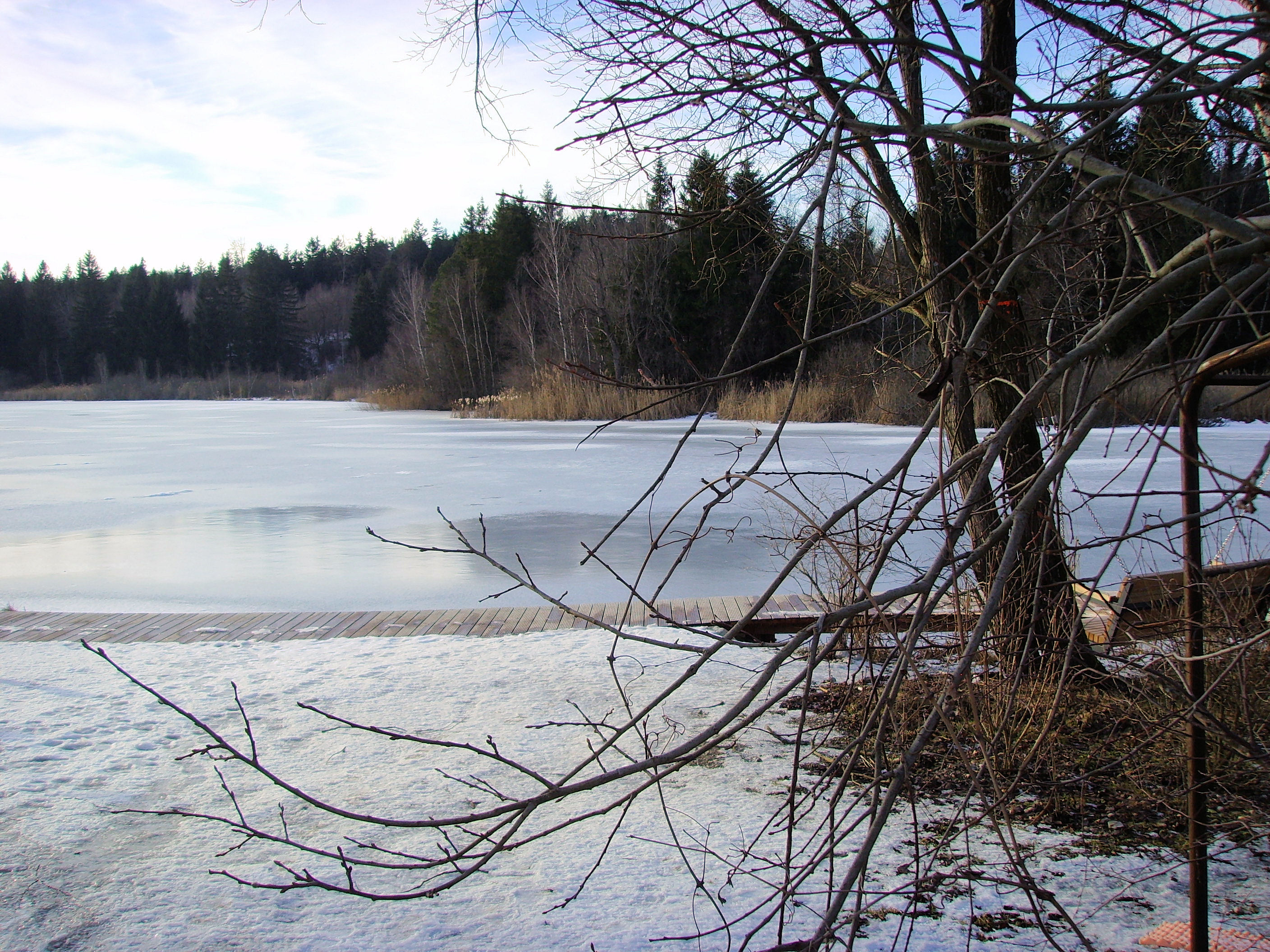 Max Planck Institute for Ornithology, Seewiesen (Bavaria, Germany), formerly known as Max Planck Institute für Behavioral Physiology: Lake Ess-See. This lake is wellknown as the place, where Austrian ethologist Konrad Lorenz made his experiments on imprinting in waterfowl.